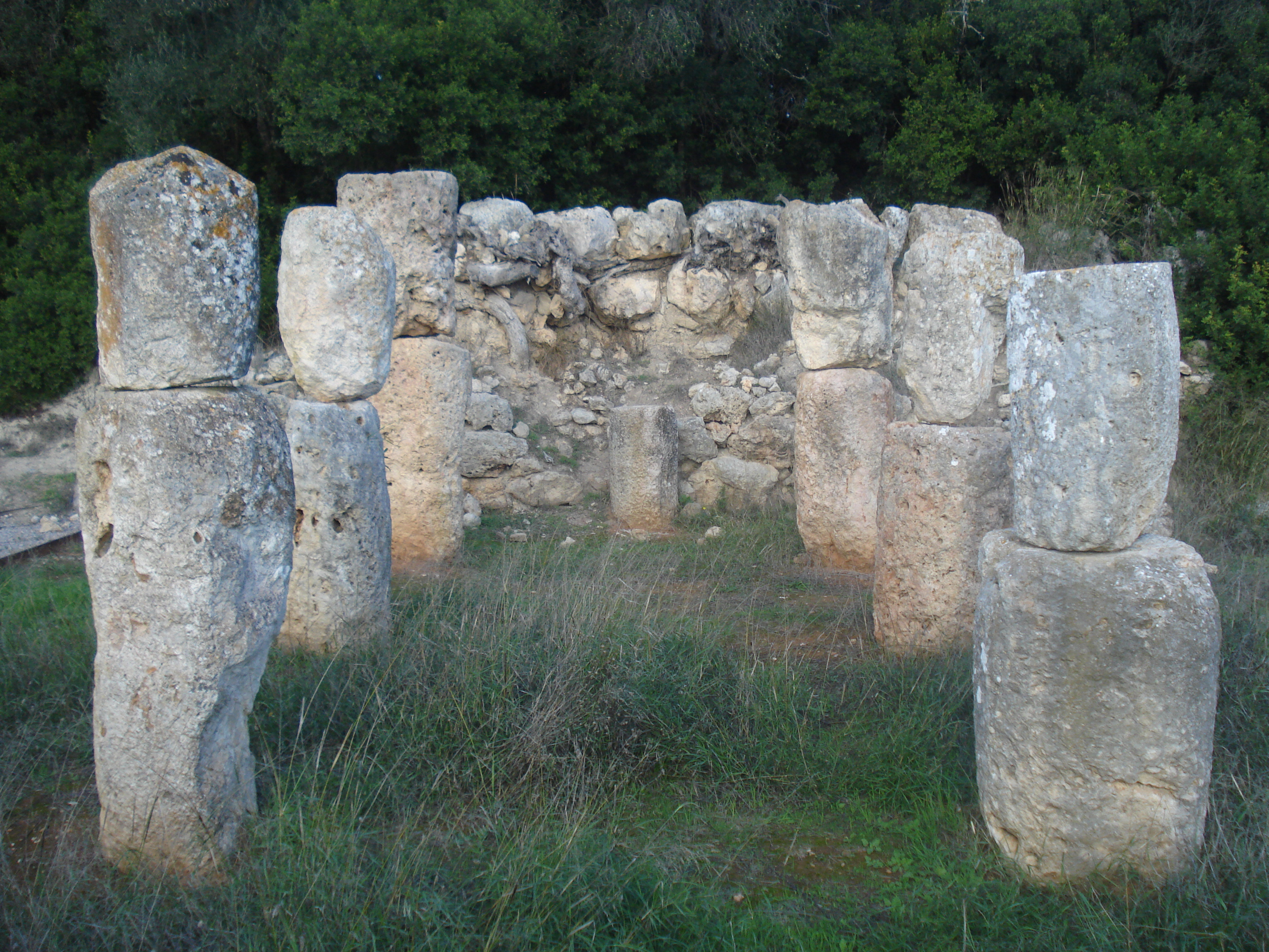 Son Corró